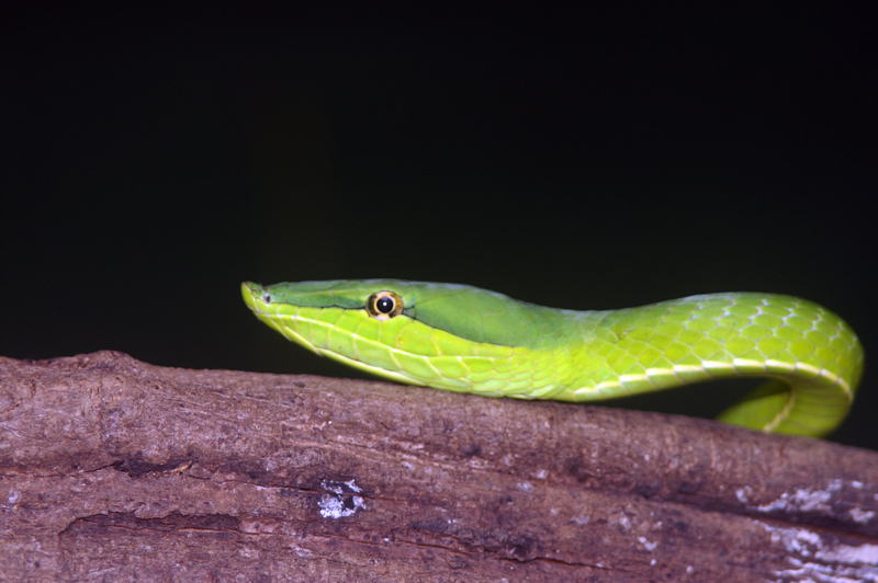 Green vinesnake